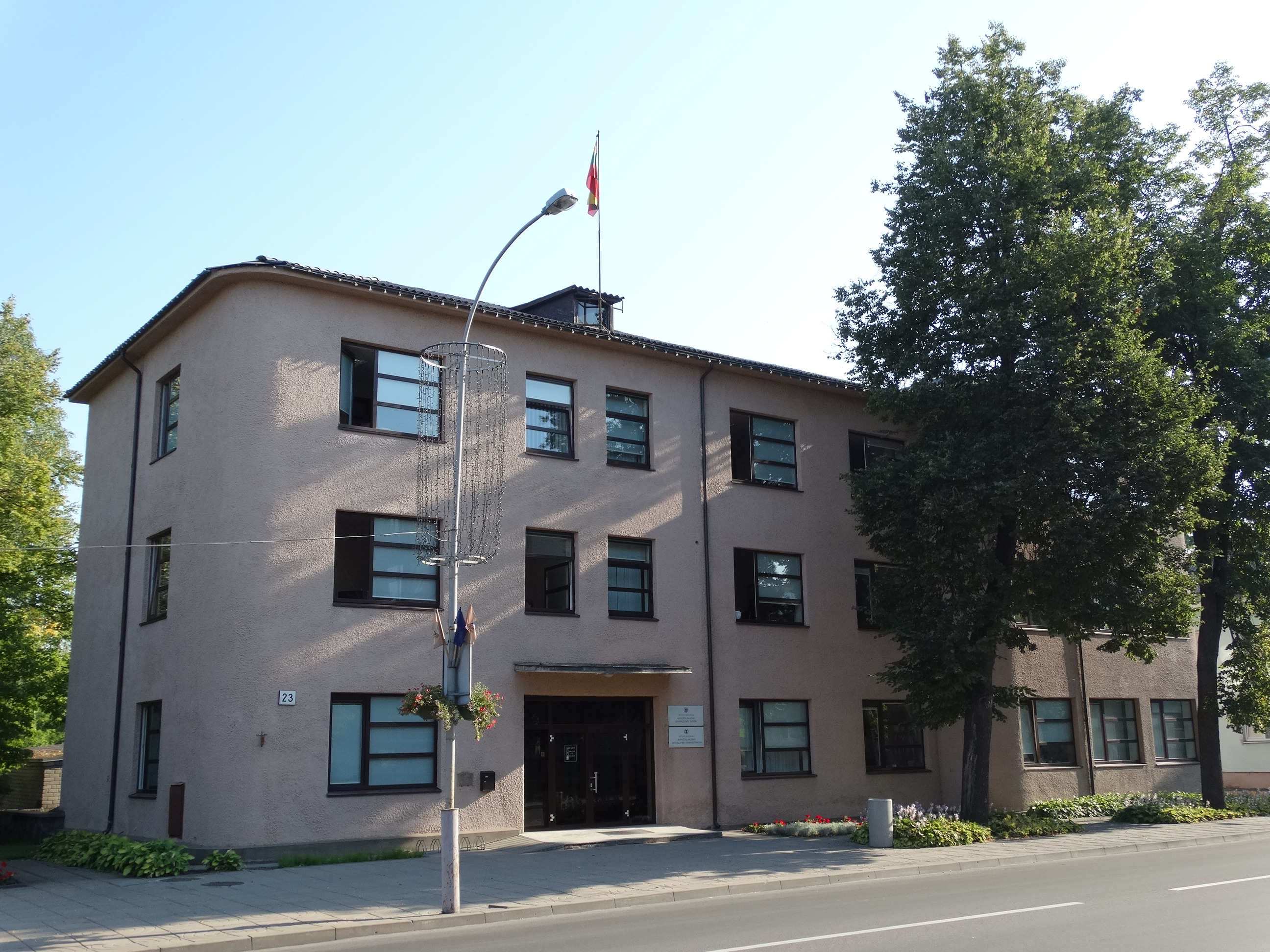 Municipality, Anykščiai, Lithuania